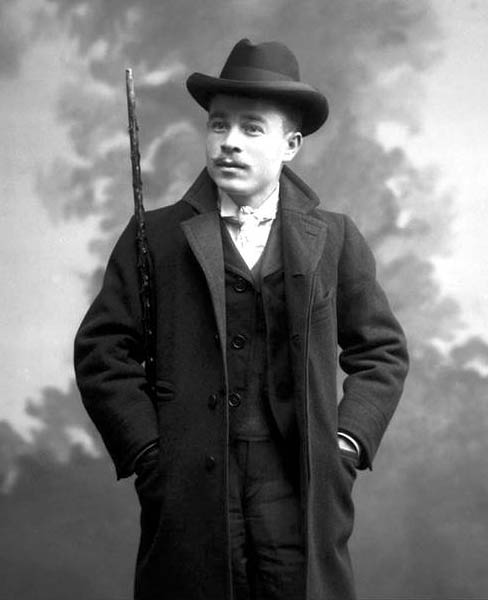 Portrait of Fernando Paillet, Argentine photographer.